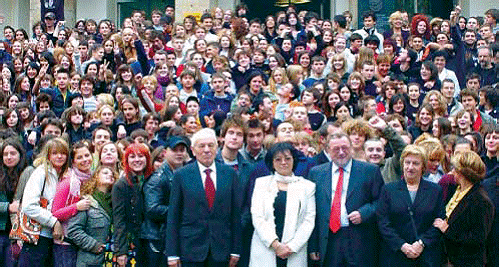 From the Opening Celebration of the 400th Anniversary of the Classical Gymnasium in Zagreb.